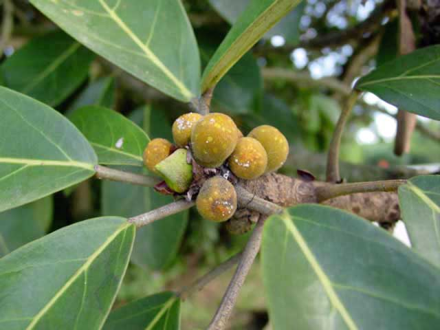 Accessory fruit of Ficus lutea. Photo by M. A. P. Accardo Filho.